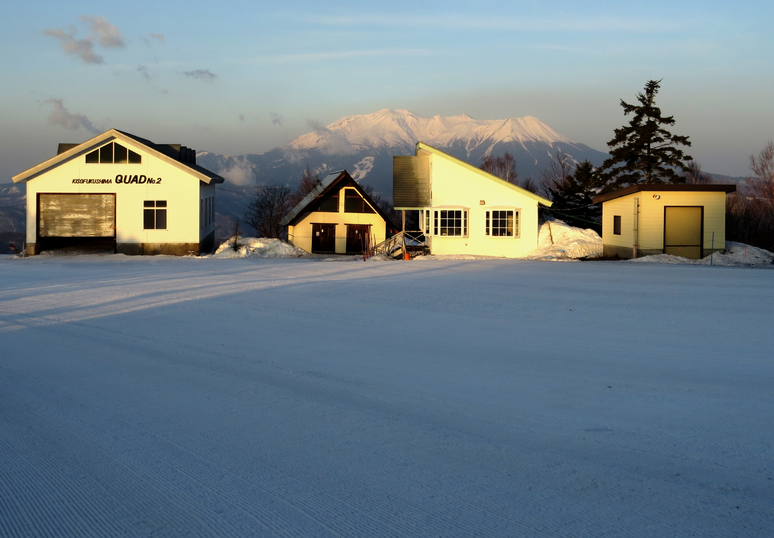 Mount Ontake from Sky course Kisofukushima Ski resort, in Kiso town, Nagano prefecture, Japan.